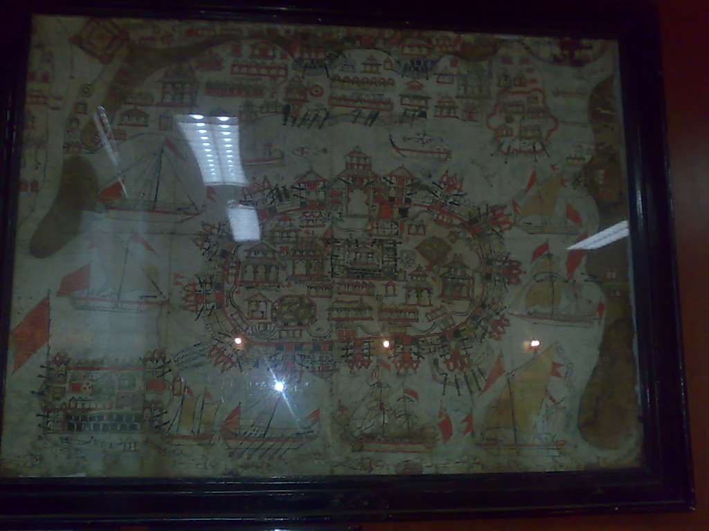 Fort Murud-Jjanjira, Moghul style, birdsview,painting